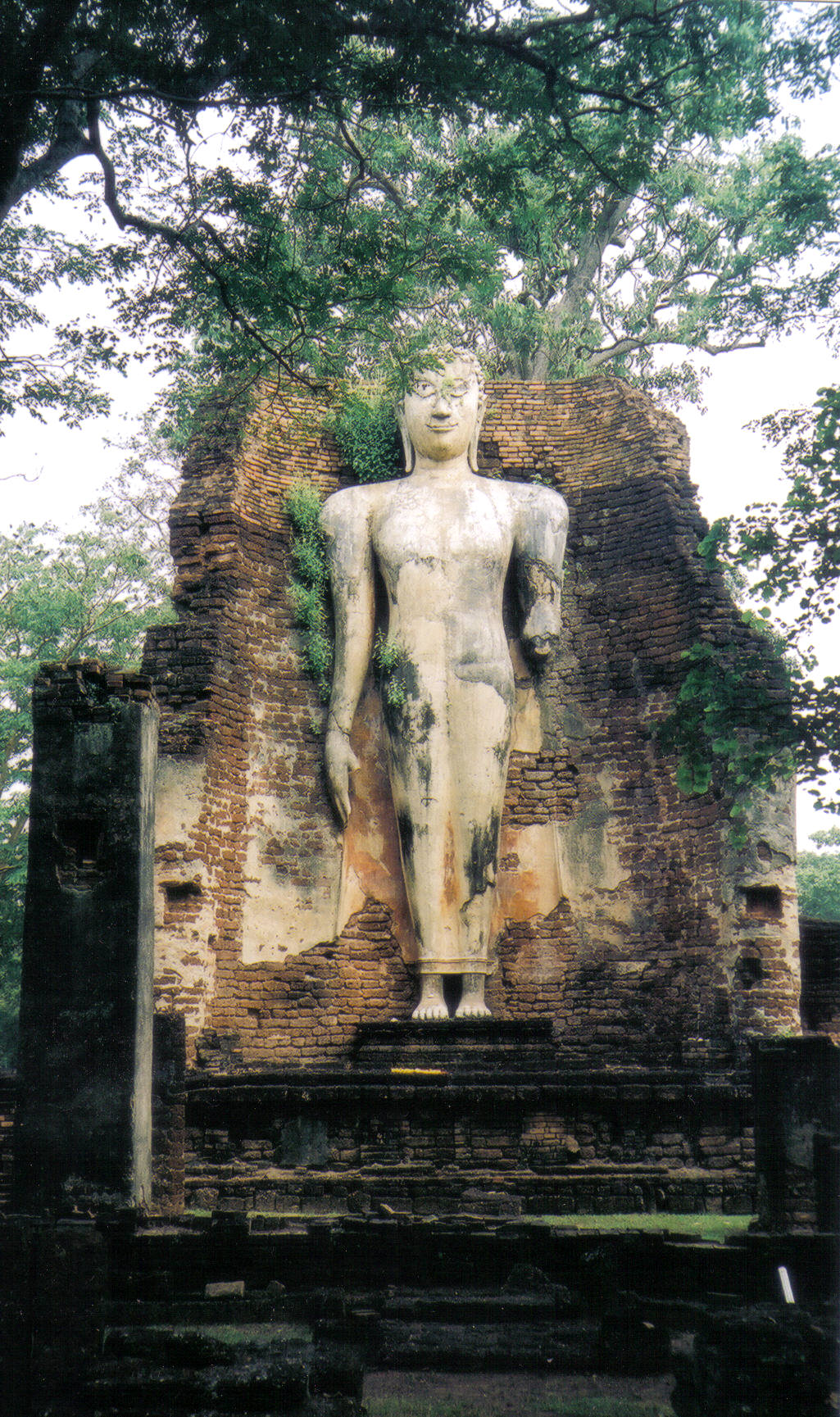 a Buddhist temple in Kamphaeng Phet Historical Park, Kamphaeng Phet province, Thailand